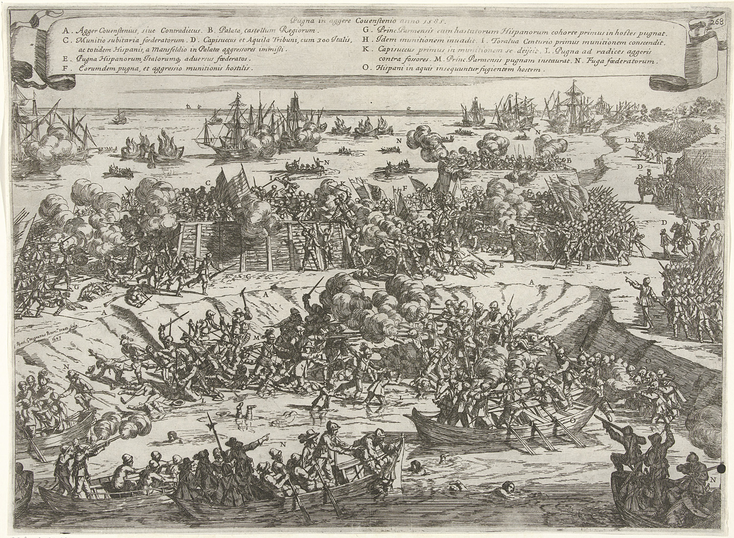 Battle on the Kauwensteinse dike, 26 mai 1585, attack from the Statenarmy and ships from Sealand on the dike